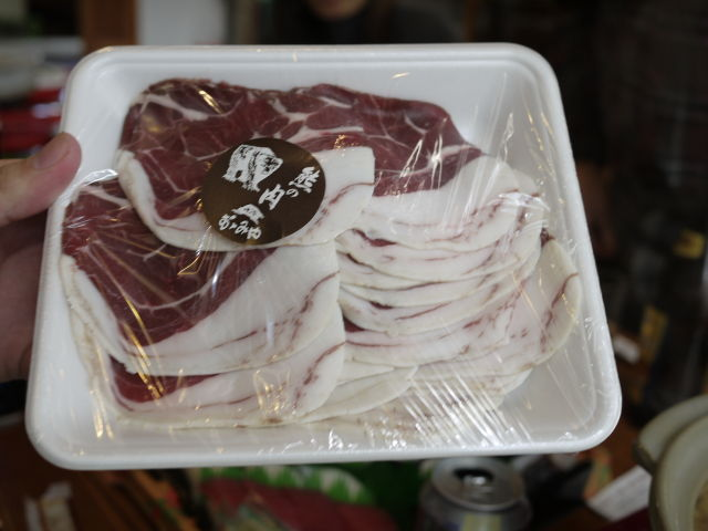 Bear meat in Japan.